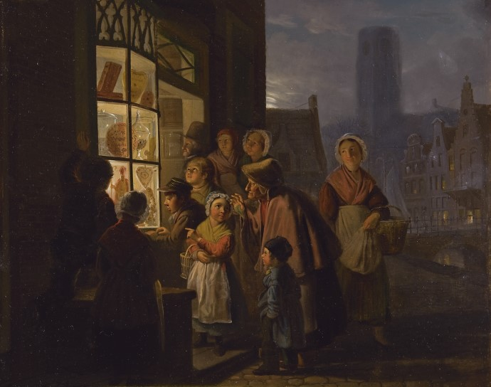 The display of confectionery for the Saint Nicolas festivity, signed and dated, 40,1x48cm, oil on panel